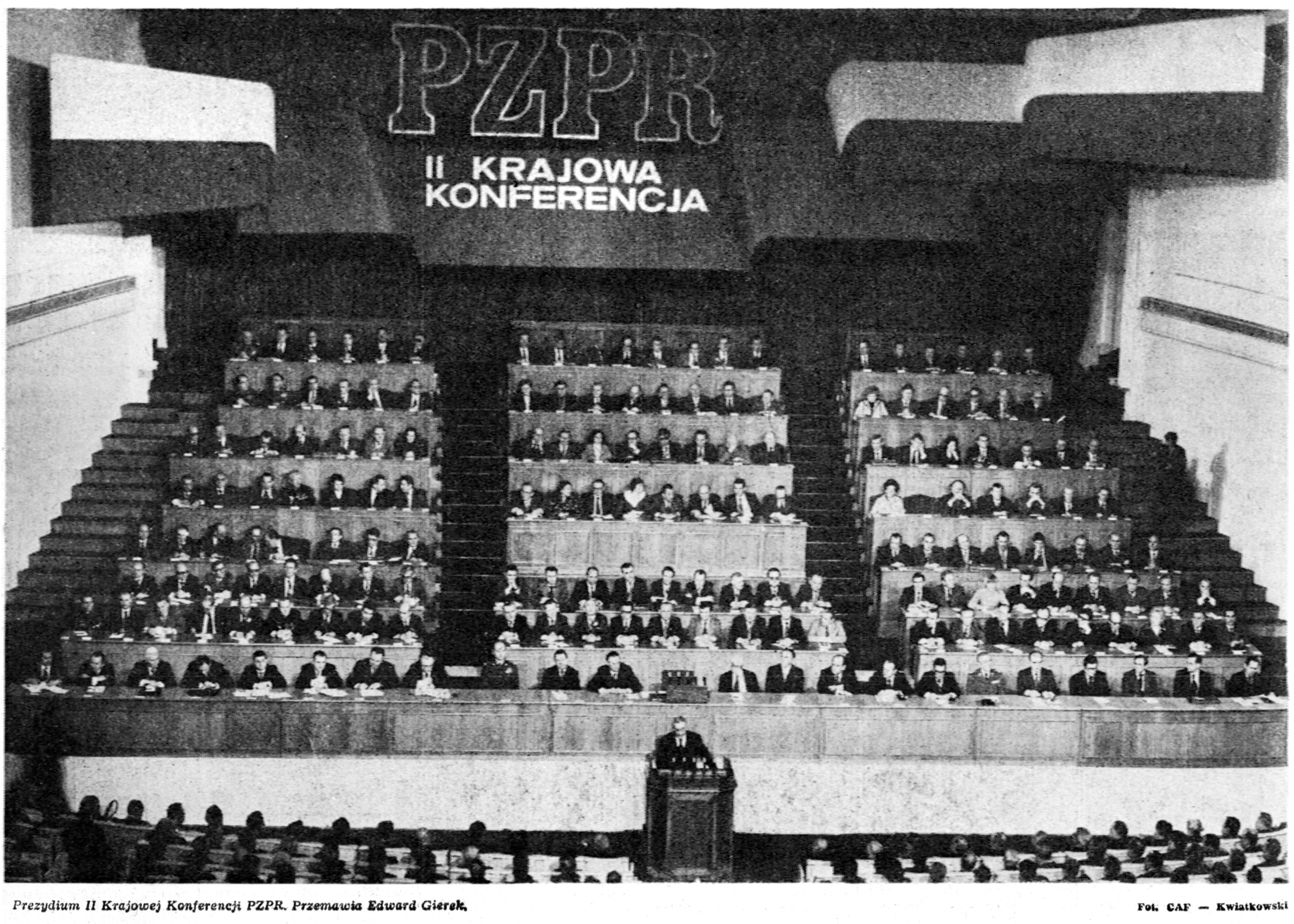 2nd Land Congress of the Polish United Worker's Party, January 9th, 1978